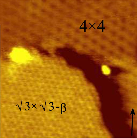 STM image of the second-layer √3 × √3-β silicene at 620 K, which appeared at Si coverage = 2.0 ML. The image size is 16 × 16 nm. Vs = +2.0 V, I = 0.1 nA.